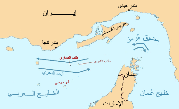 Map of Strait of Hormuz (English)